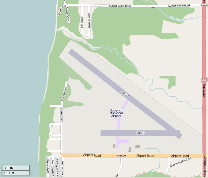 Open Street Map of the Goderich Airport, cropped using GIMP. This map may be incomplete, and may contain errors. Don't rely solely on it for navigation.